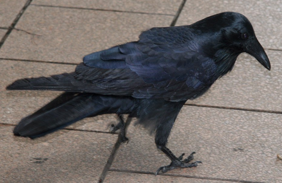 Juvenile Australian Raven (Corvus coronoides) - Hyde Park, Sydney CBD